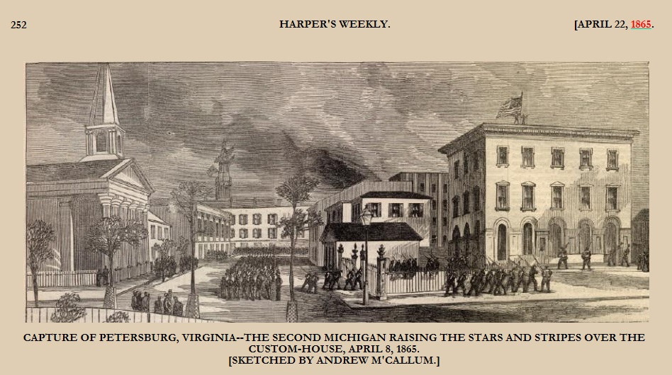 Civil War,Union forces capture Petersburg, Harpers Weekly Magazine, April, 22, 1865